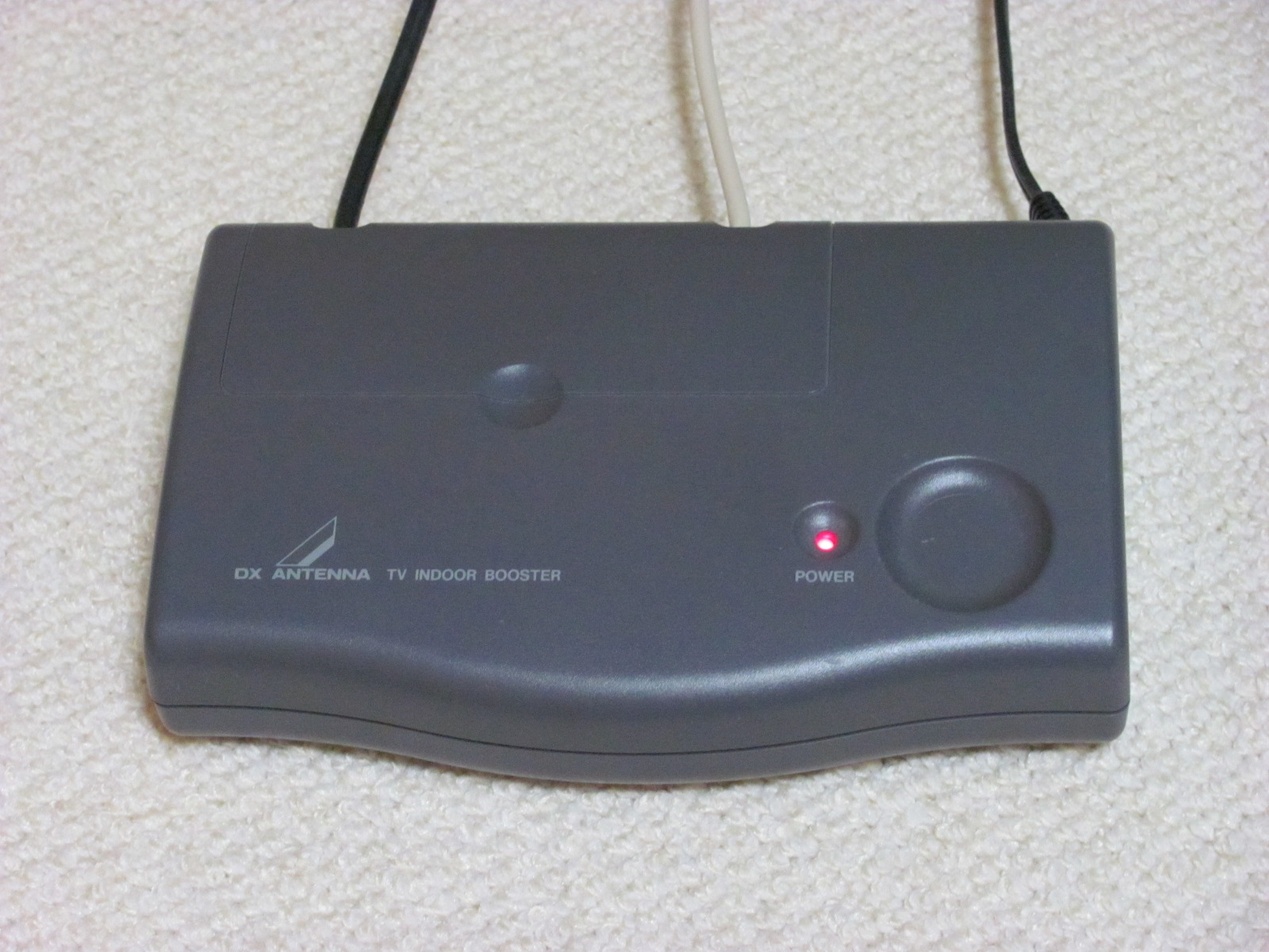 UHF TV indoor booster (33dB) made by DX Antenna